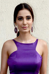 Sahai at the launch of Himesh Reshammiya & Lulia Vantur’s album ‘Aap Se Mausiiquii’